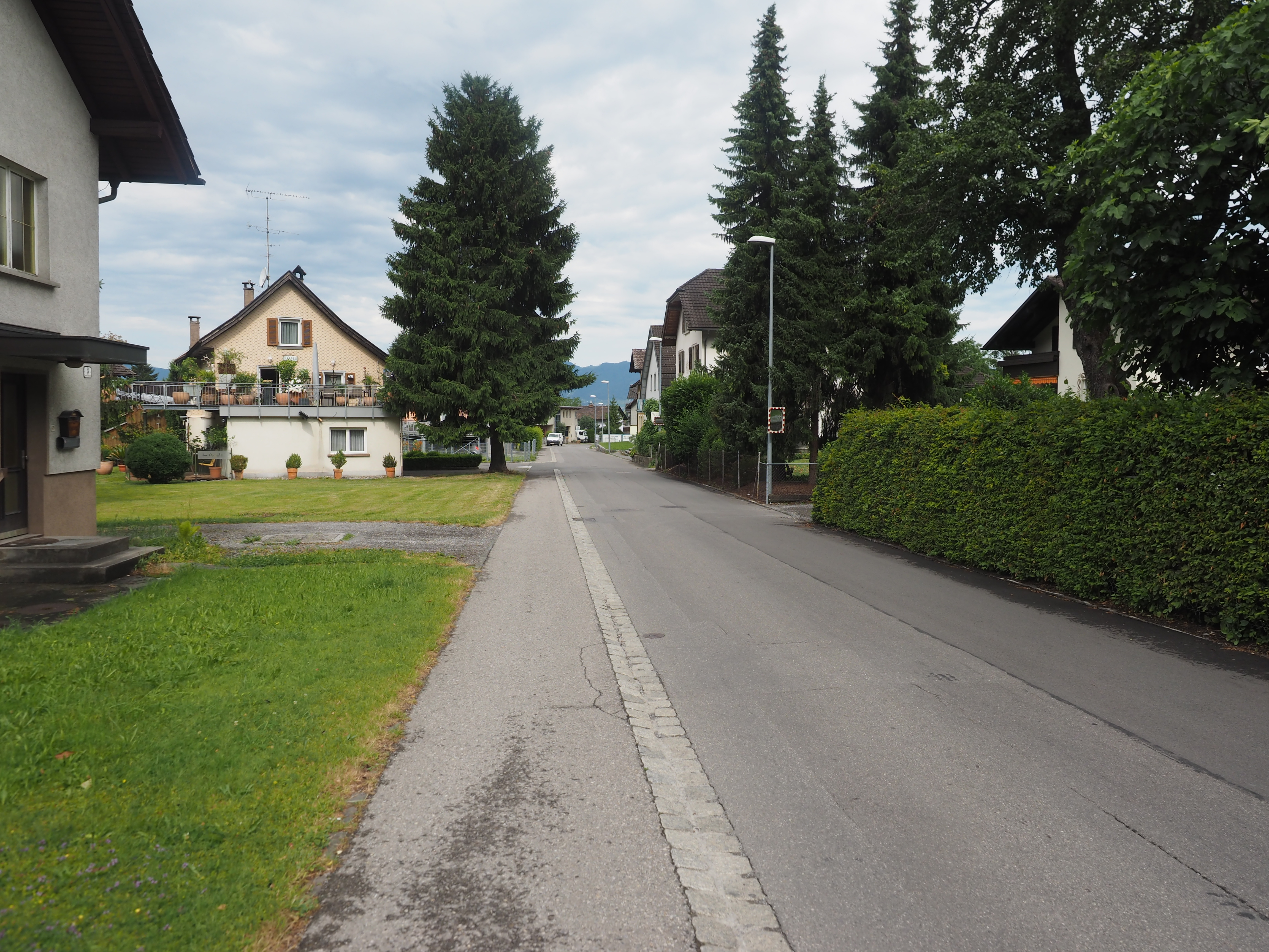 A view of central Hohenems, Vorarlberg, Austria.